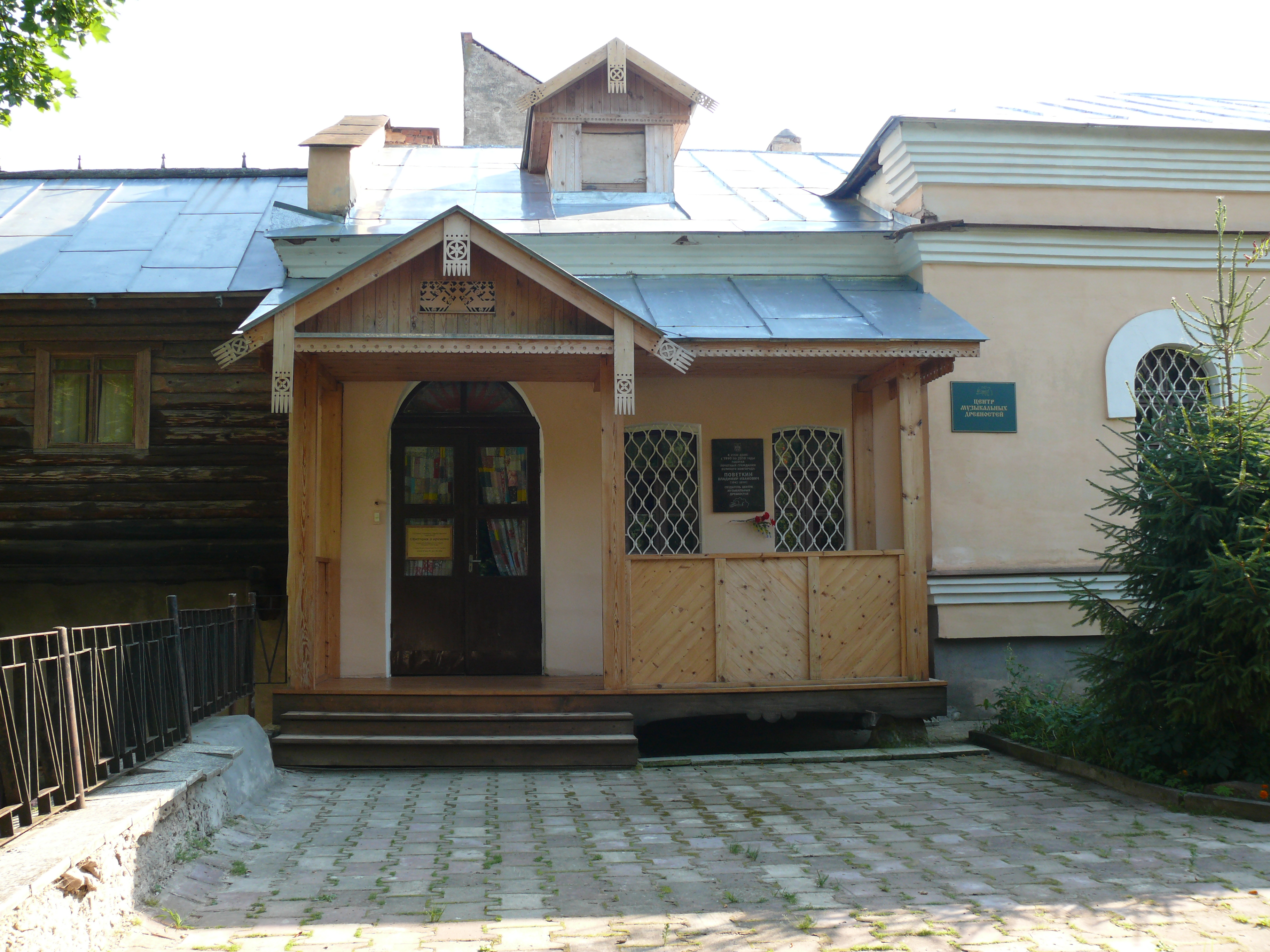 Vladimir Povetkin musical museum.